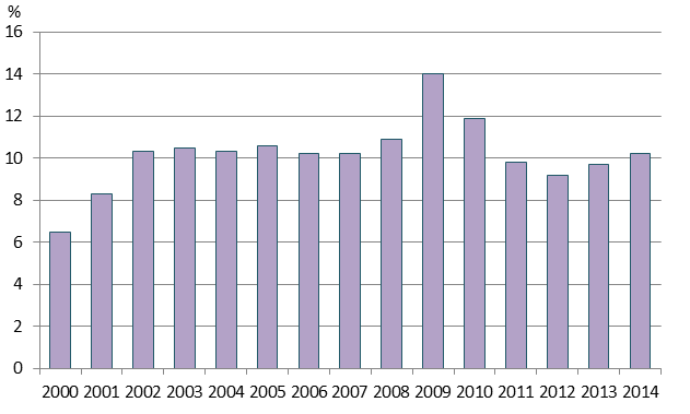 Unemployment rate of Turkey. IMF Data and Statistics